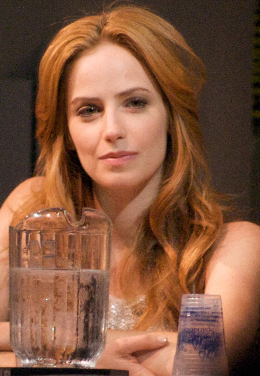 Jaime Ray Newman at the 2009 Comic-Con International in San Diego, California.